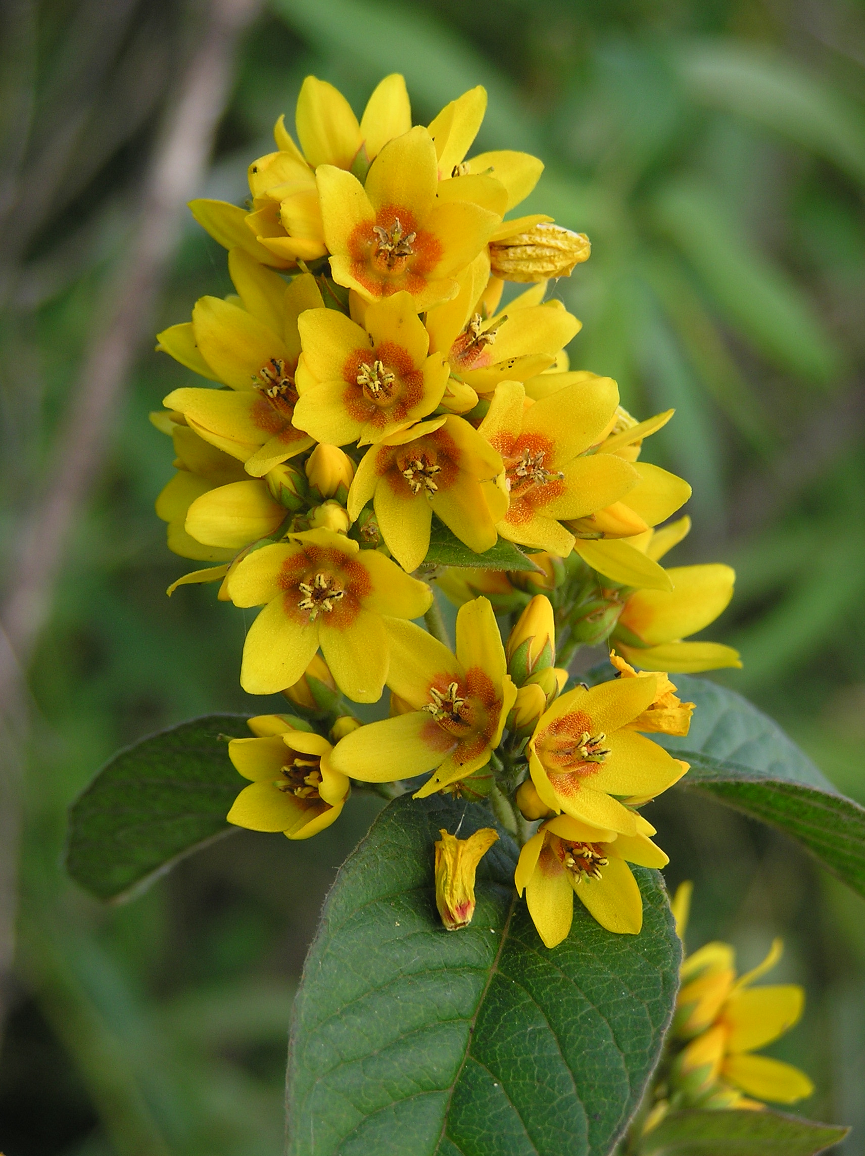 Lysimachia vulgaris L. (Yellow Loosestrife). Habitat: a bank. Volgograd Reservoir (Volga river), Engelssky District, Saratov Oblast, Russia.